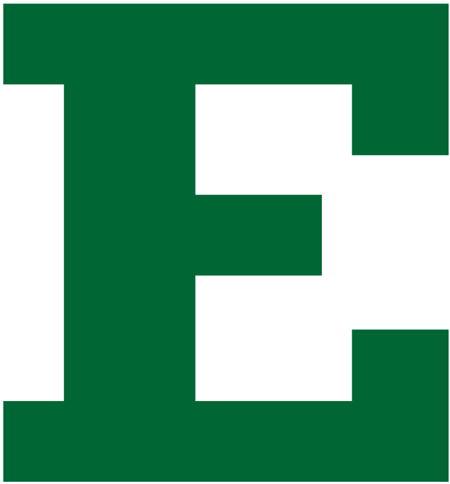 Primary logo for the EMU Eagles.